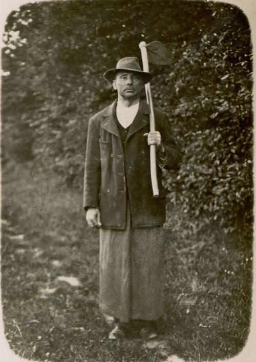 Jožef Klekl